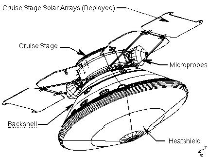 Mars Polar Lander Cruise Configuration